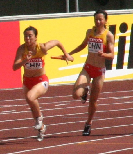 World Athletics Championships 2007 in Osaka - Scene from first heat of the women*s 4*100 relay (1st round): Qin Wangping, Jiang Lan